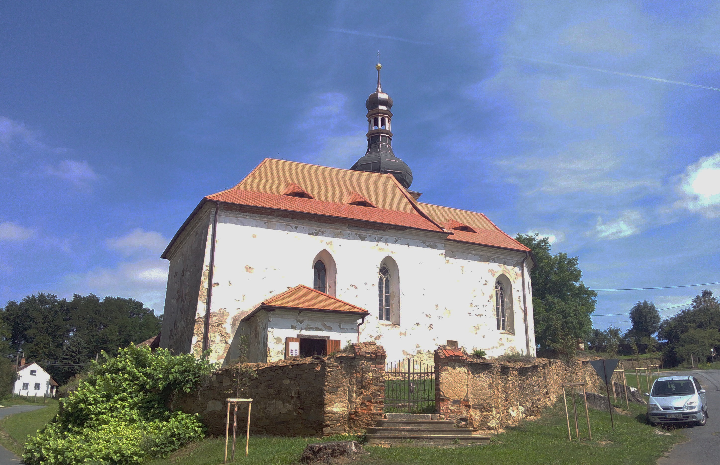 Church of st. Giles in Třebnice, Domažlice district, Plzeň Region, Czech Republic.